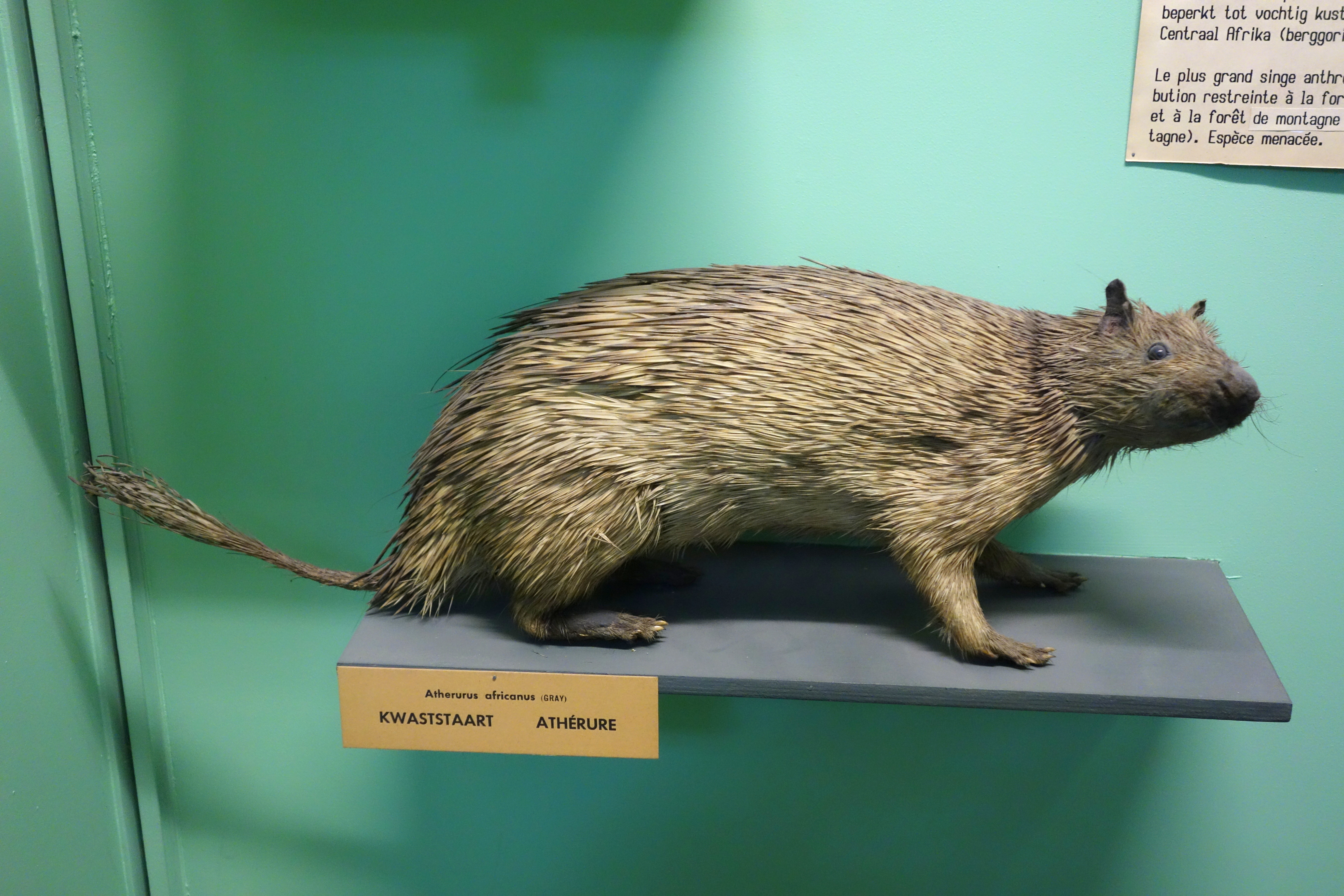 Exhibit in the Royal Museum for Central Africa, Tervuren, Belgium.